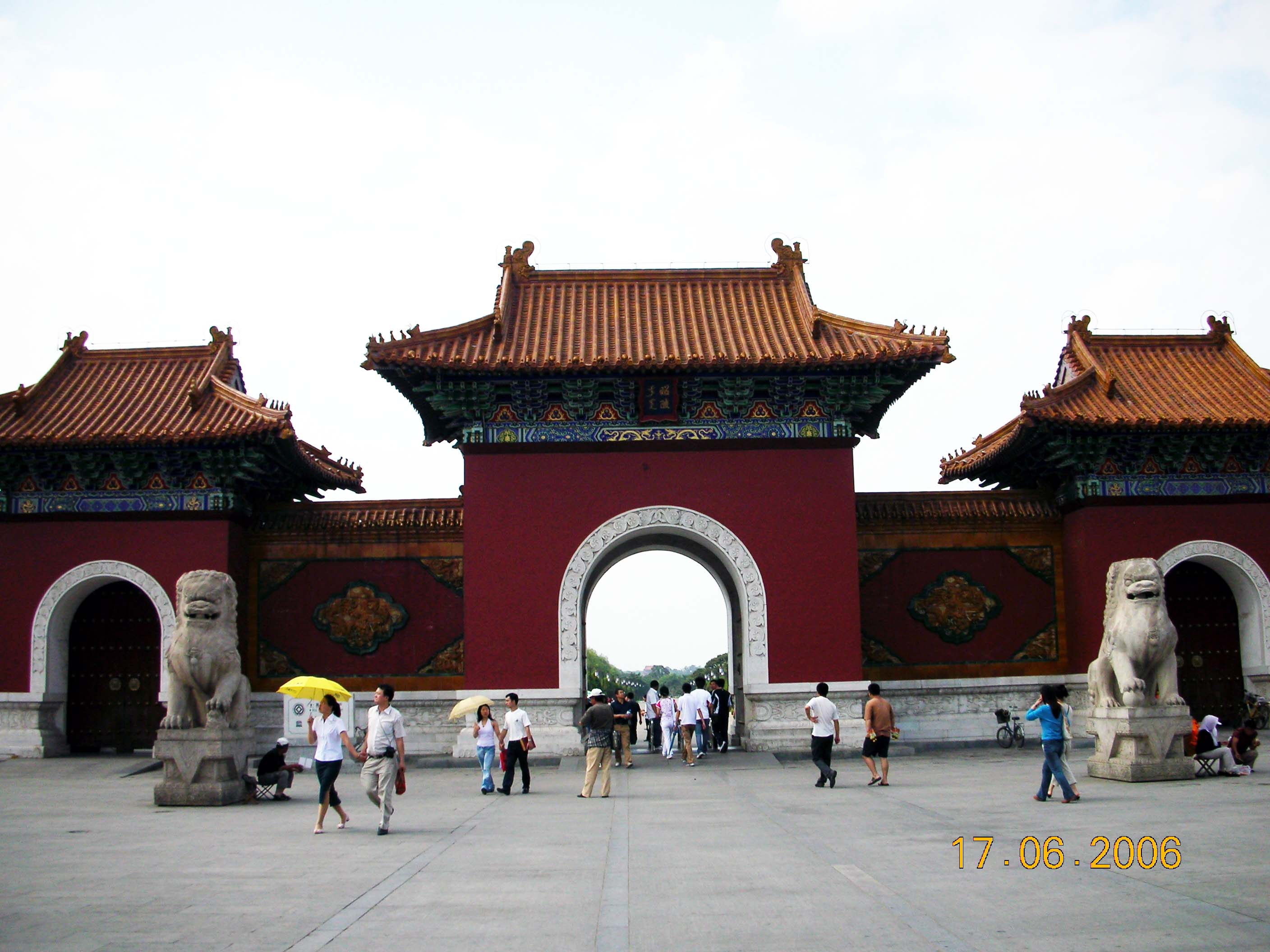 Red Gate, Zhaoling Tomb of the Qing Dynasty, Shenyang, China 瀋陽清昭陵正紅門